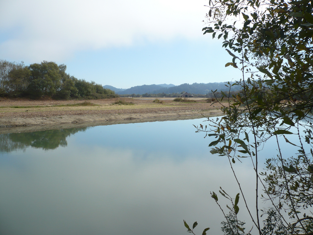 The newly reopened western end of the Salt River in Humboldt County, California. The cofferdam and levee were breached between the phase one excavation and the Eel River on October 9, 2013 and the River became tidal again in the lowest section of the restoration. The breech location is to the left (west) of this picture which looks south east toward the Wildcat Hills which are the headwaters and provide tributaries to this river. Between river and barn, notice restoration marsh is also holding water.